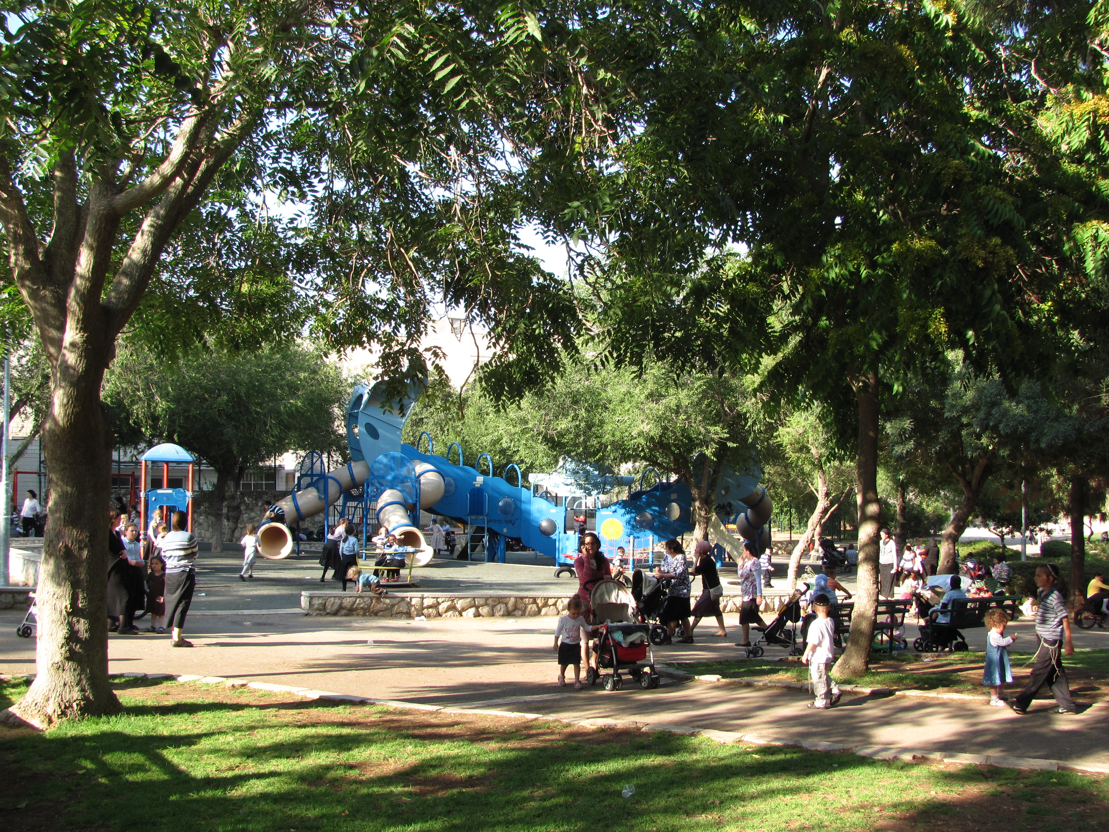 Arzei HaBira central playground on a weekday afternoon.